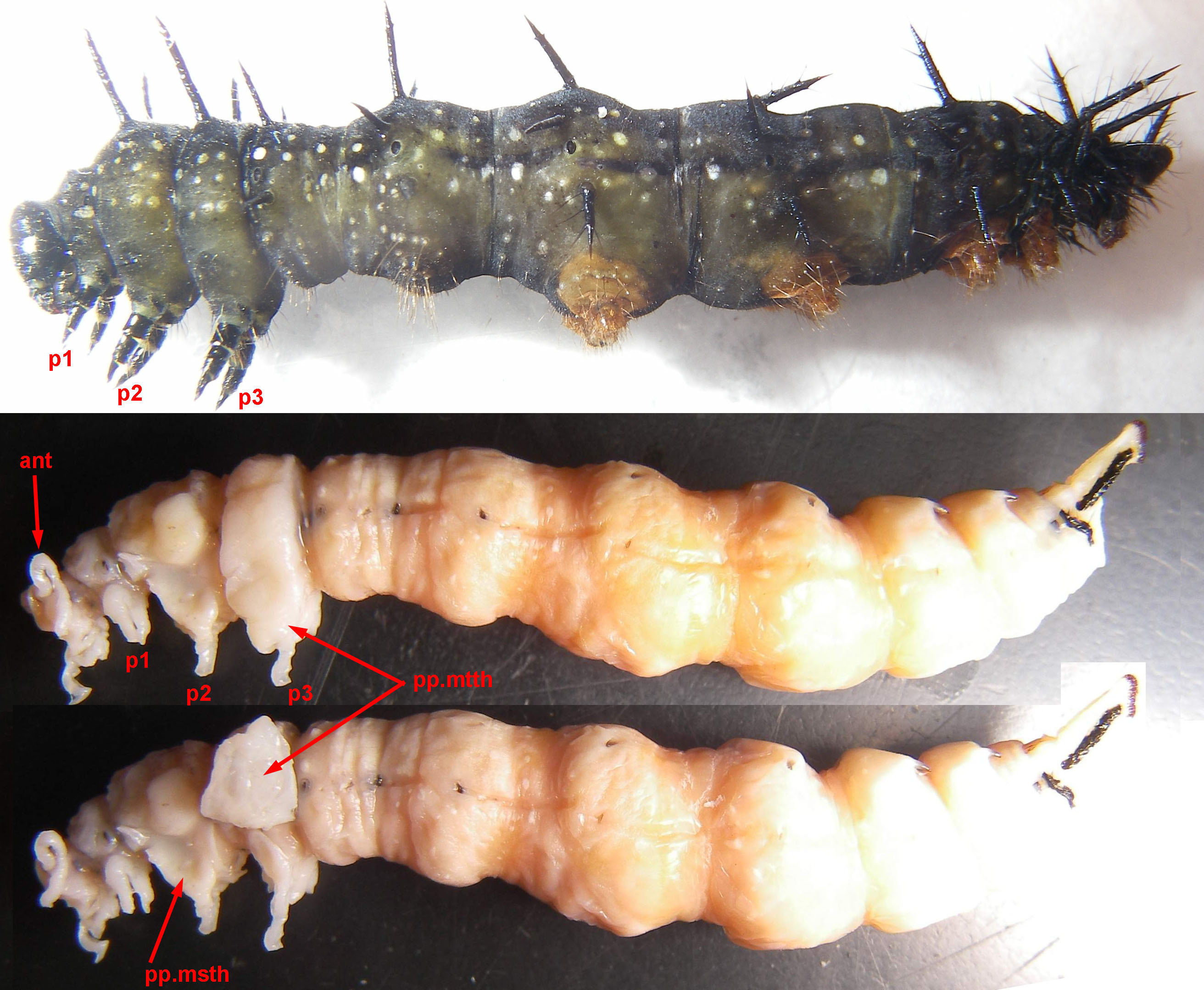 pronymph of butterfly Vanessa io and its pupal body extracted from larval cuticle